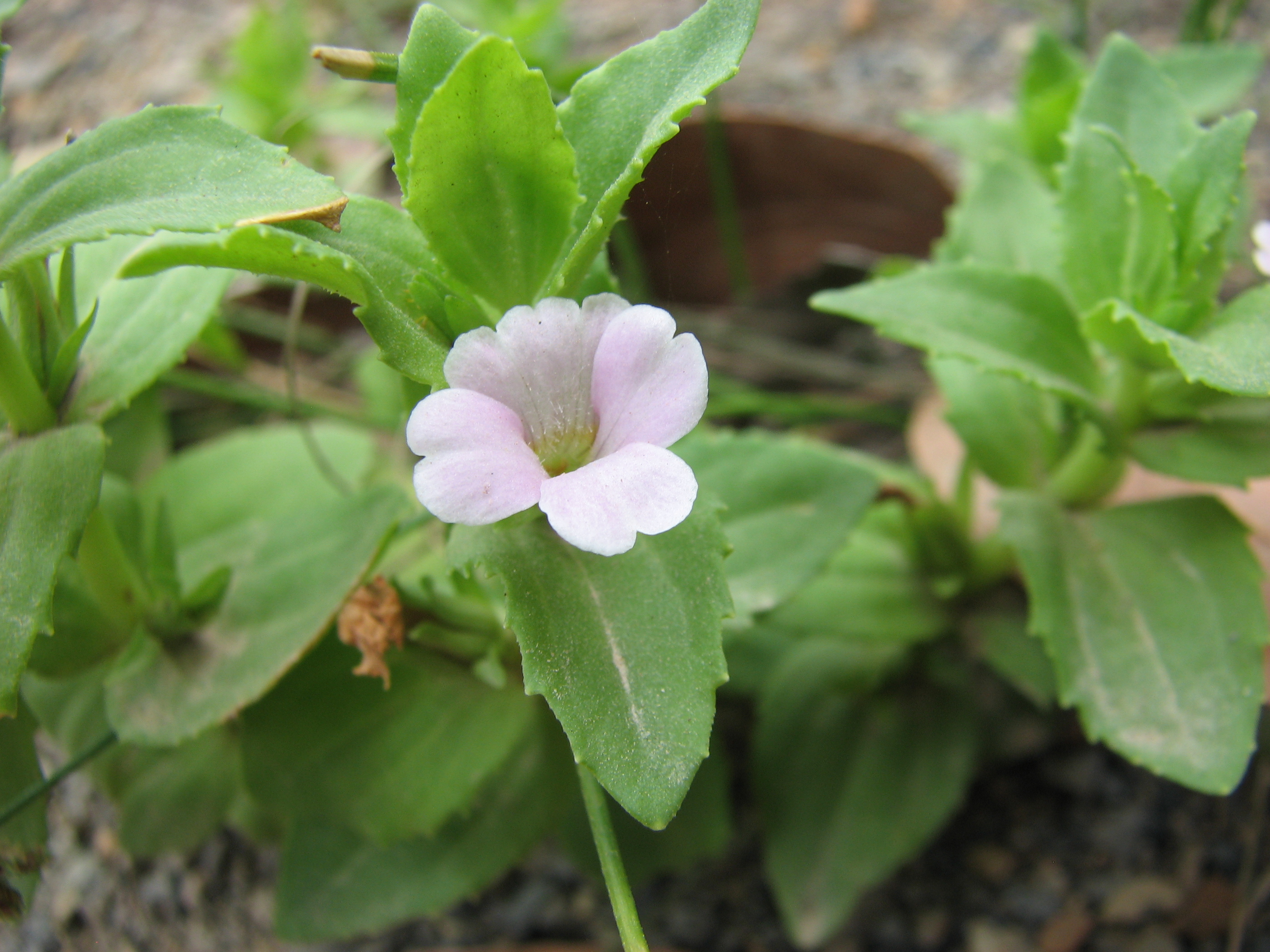 Gratiloa peruviana, Kinglake National Park, Victoria, Australia